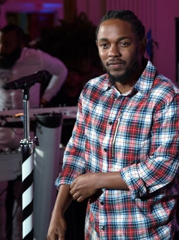 Cropped photograph of Kendrick Lamar at a 4th of July celebration with Barack Obama and Janelle Monáe at the White House in 2016